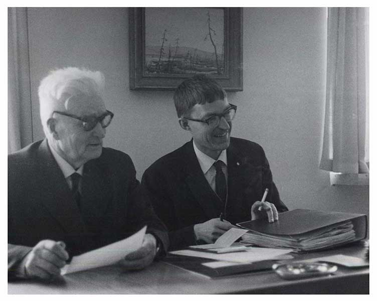 Photograph of the Finnish writers A. E. Järvinen and Jorma Etto when Pohjoiset Kirjailijat ry was founded.